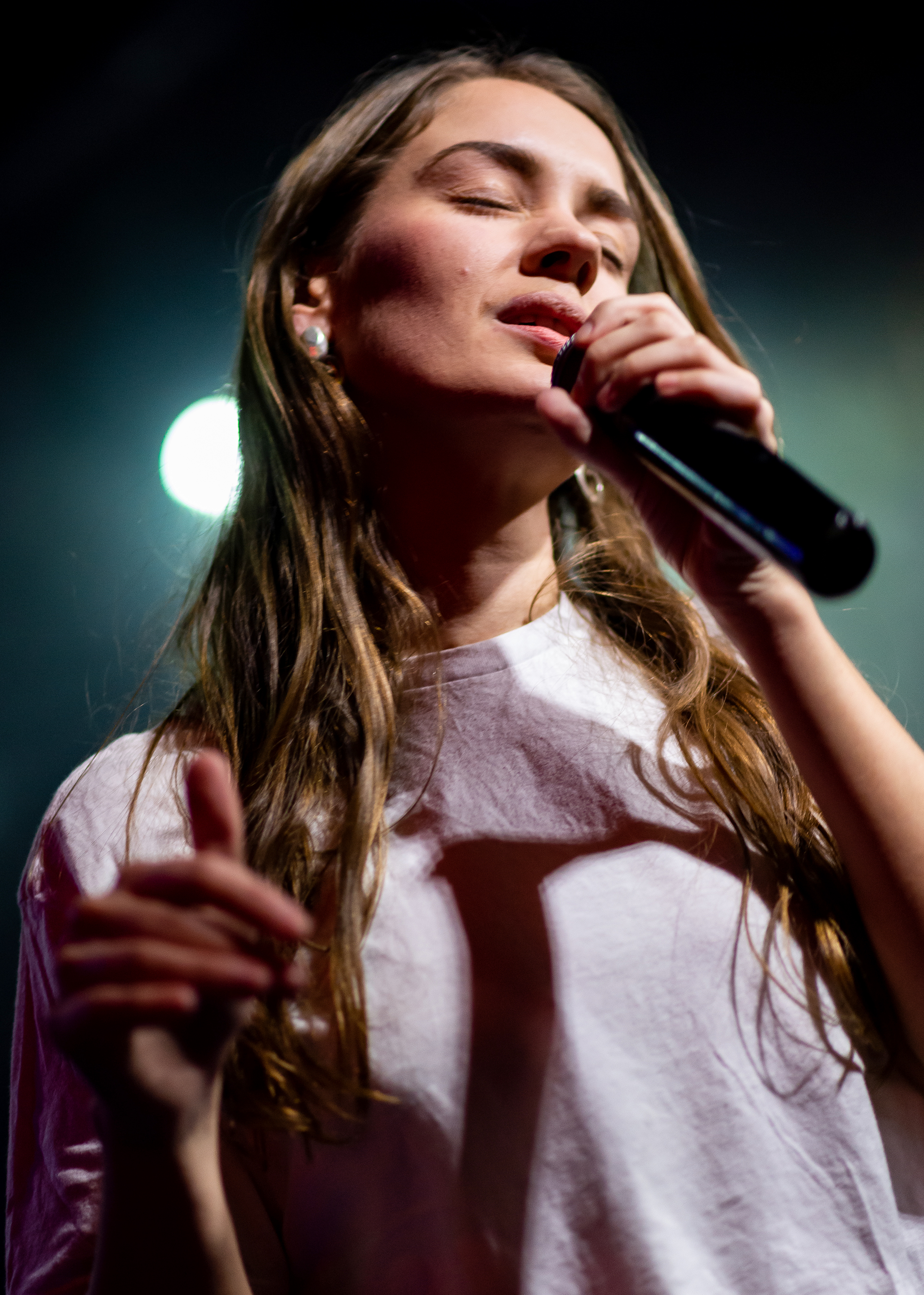 Anna of the North performing live at Resident DTLA in Los Angeles, California, on Thursday, November 8, 2018.